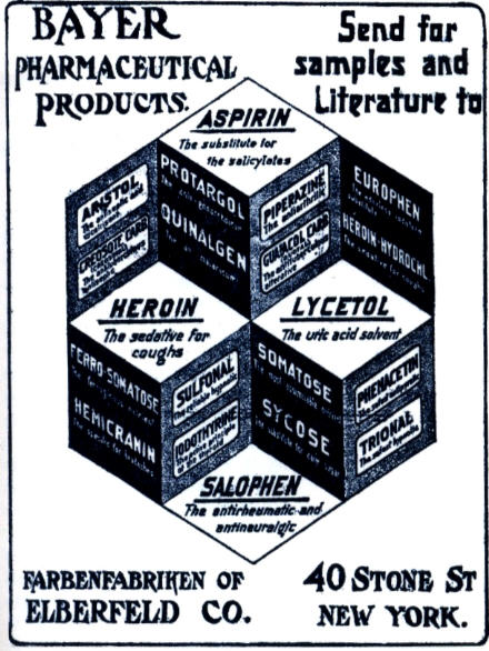 Old advertisement for Bayer pharmaceuticals, uses pre-1904 company logo. Aspirin, Heroin, Lycetol, and Salophen